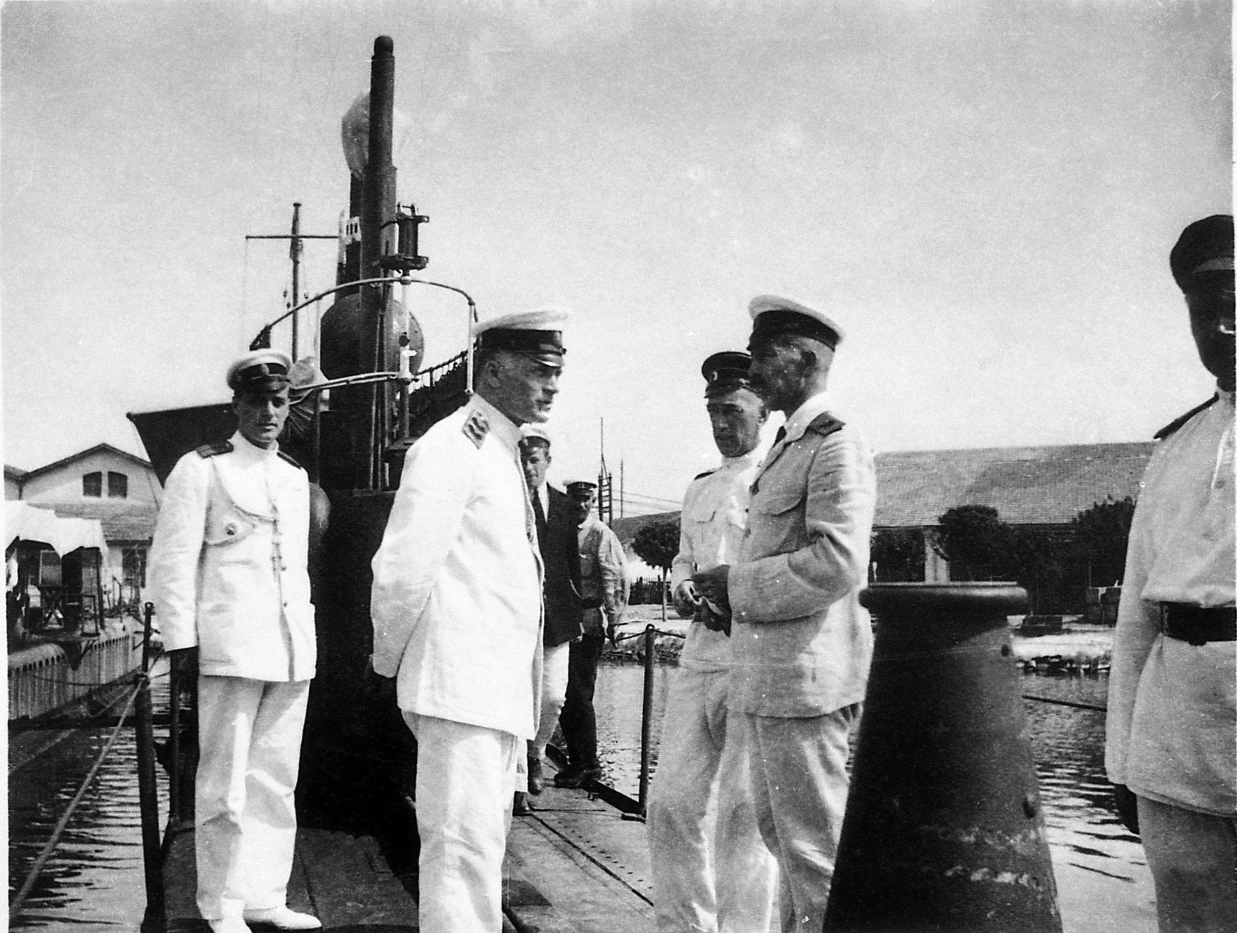 Submarine Tyulen at Bizerte, 1921.